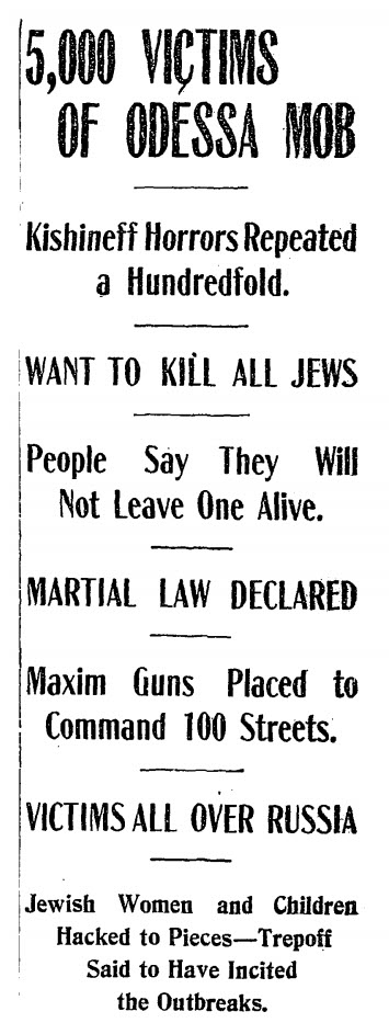 New York Times headlines of an article about massacres against the jewish population in Odessa, November 1905. The text states: 5,000 VICTIMS OF ODESSA MOB. Kishineff Horrors Repeated a Hundredfold. WANT TO KILL ALL JEWS. People Say They Will Not Leave One Alive. MARTIAL LAW DECLARED. Maxim Guns Placed to Command 100 Streets. VICTIMS ALL OVER RUSSIA. Jewish Women and Children Hacked to Pieces - Trepoff Said to Have Incited the Outbreaks.